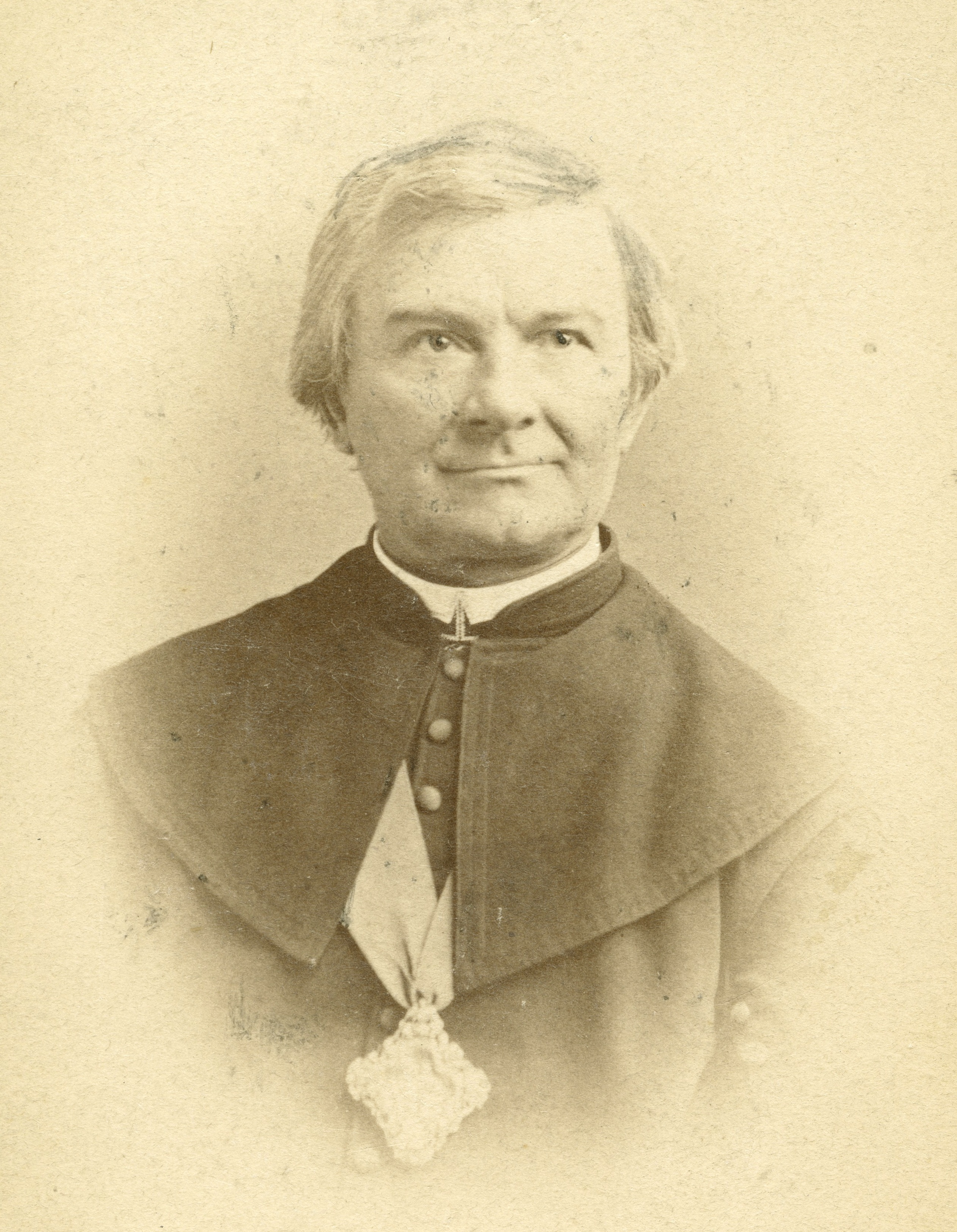 Czech poet, religion writer, translator, writer and roman catholic priest